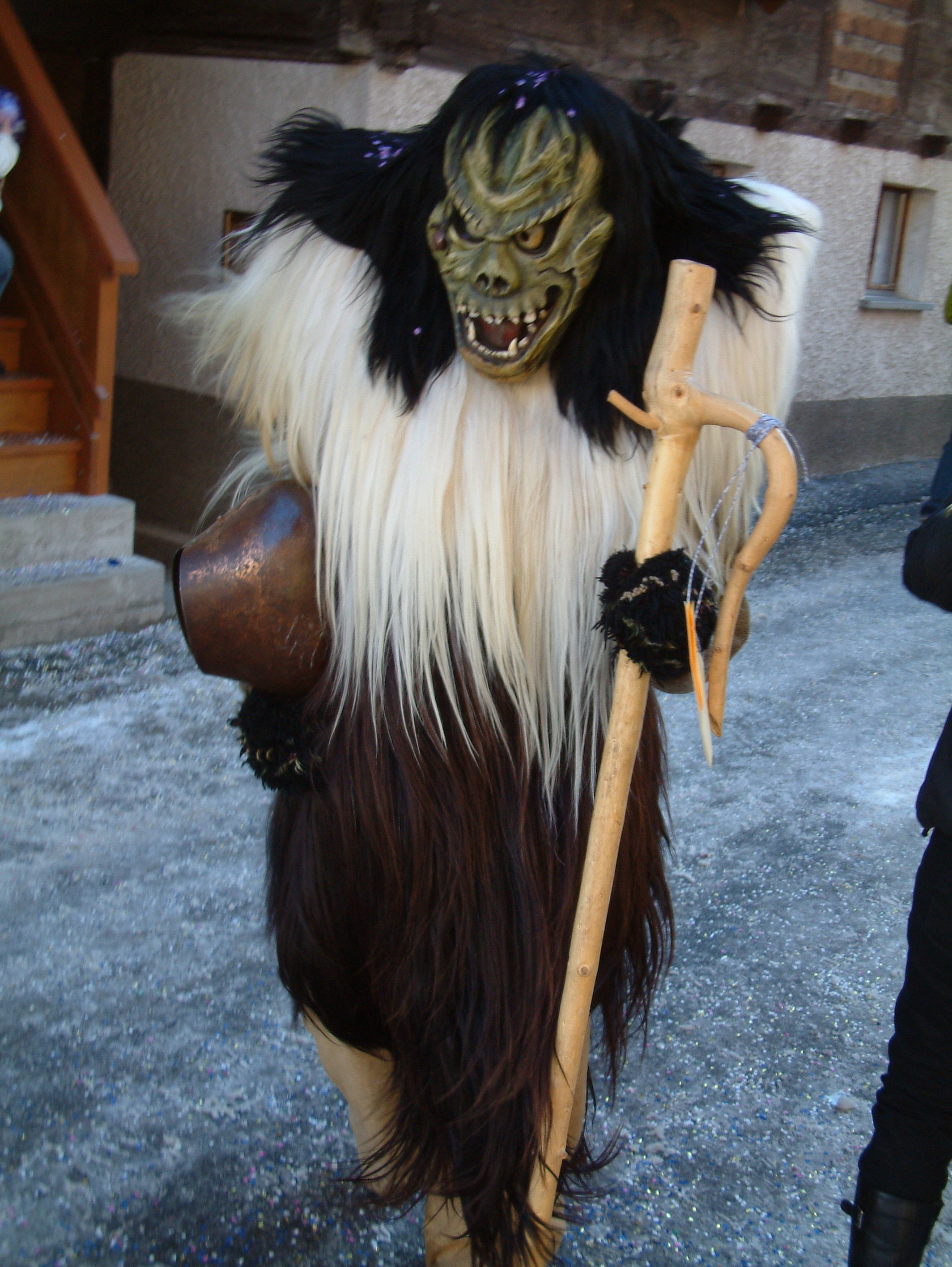 Tschäggättä, costumed figures wearing wooden masks during Carnival in Lötschental/Switzerland. Displayed at Lötschentaler Museum - Kippel.